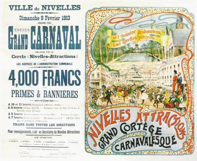 Flyer about carnaval Nivelles